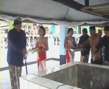 The picture of Petik Tirta ceremony, a traditional culture from Purworejo, Central Java, Indonesian